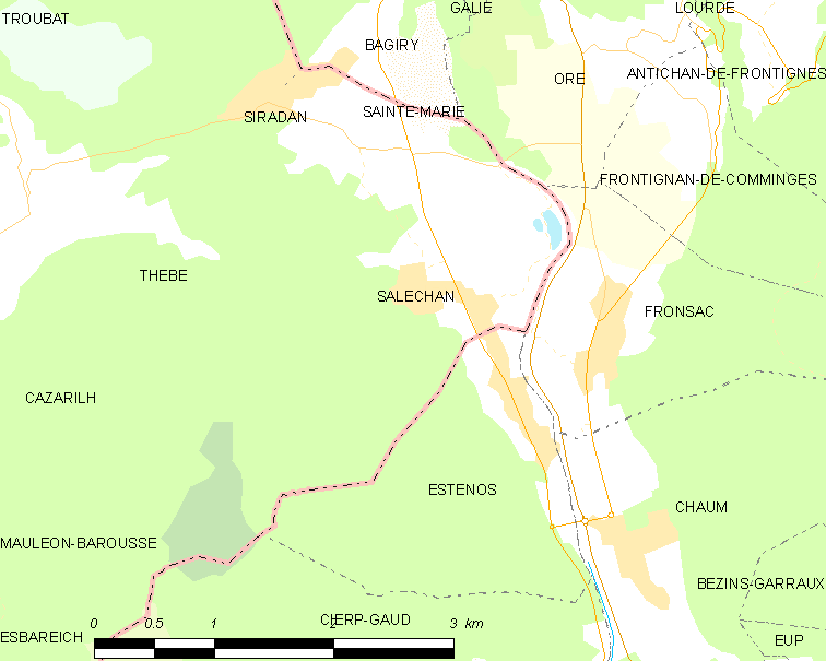 Map of French municipality